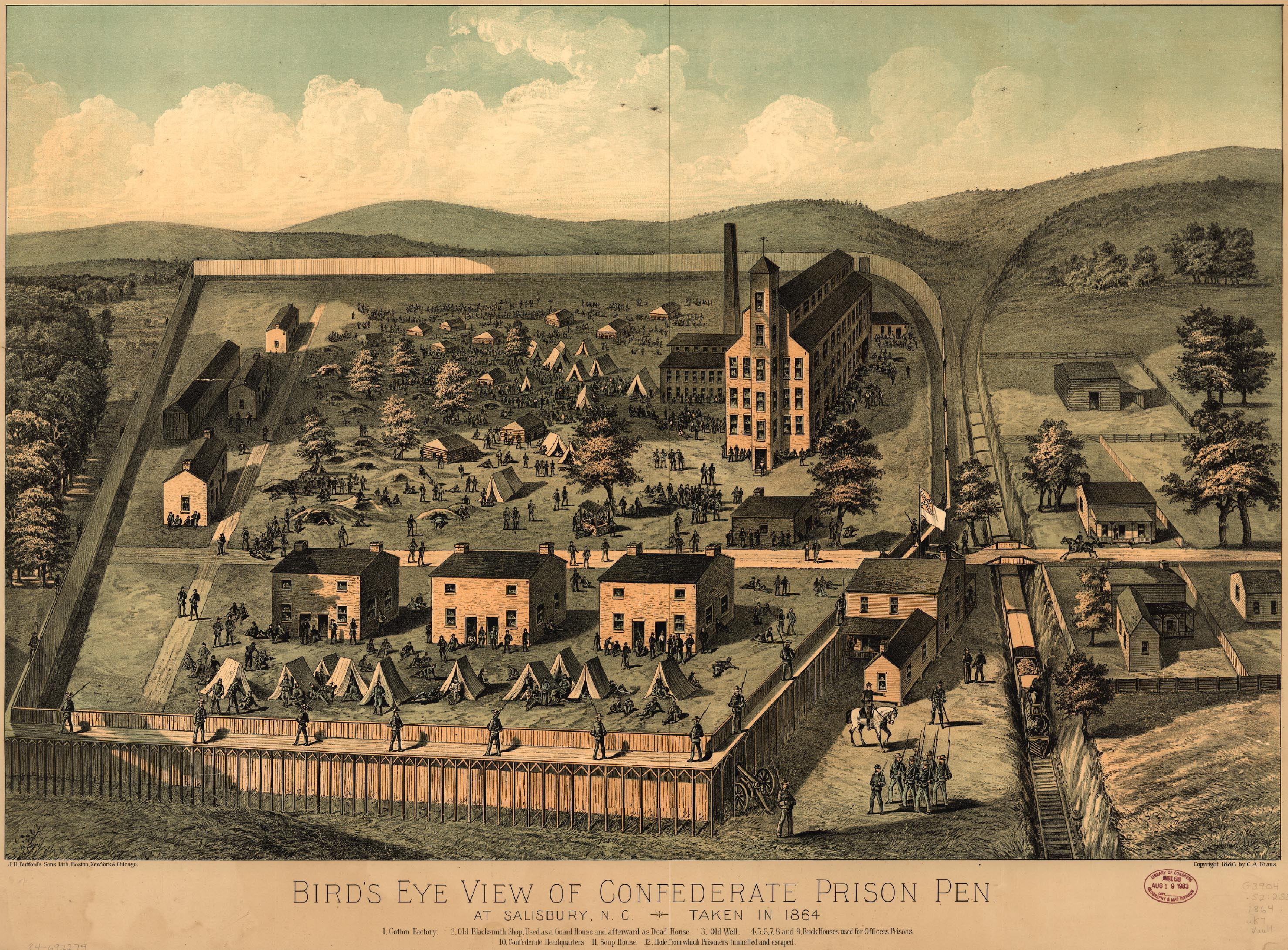 "Bird's Eye View of the Confederate Prison Pen at Salisbury, N.C., Taken in 1864," illustration by C. A. Kraus, published by J. H. Bufford's Sons Lith., Boston, New York and Chicago, 1886.